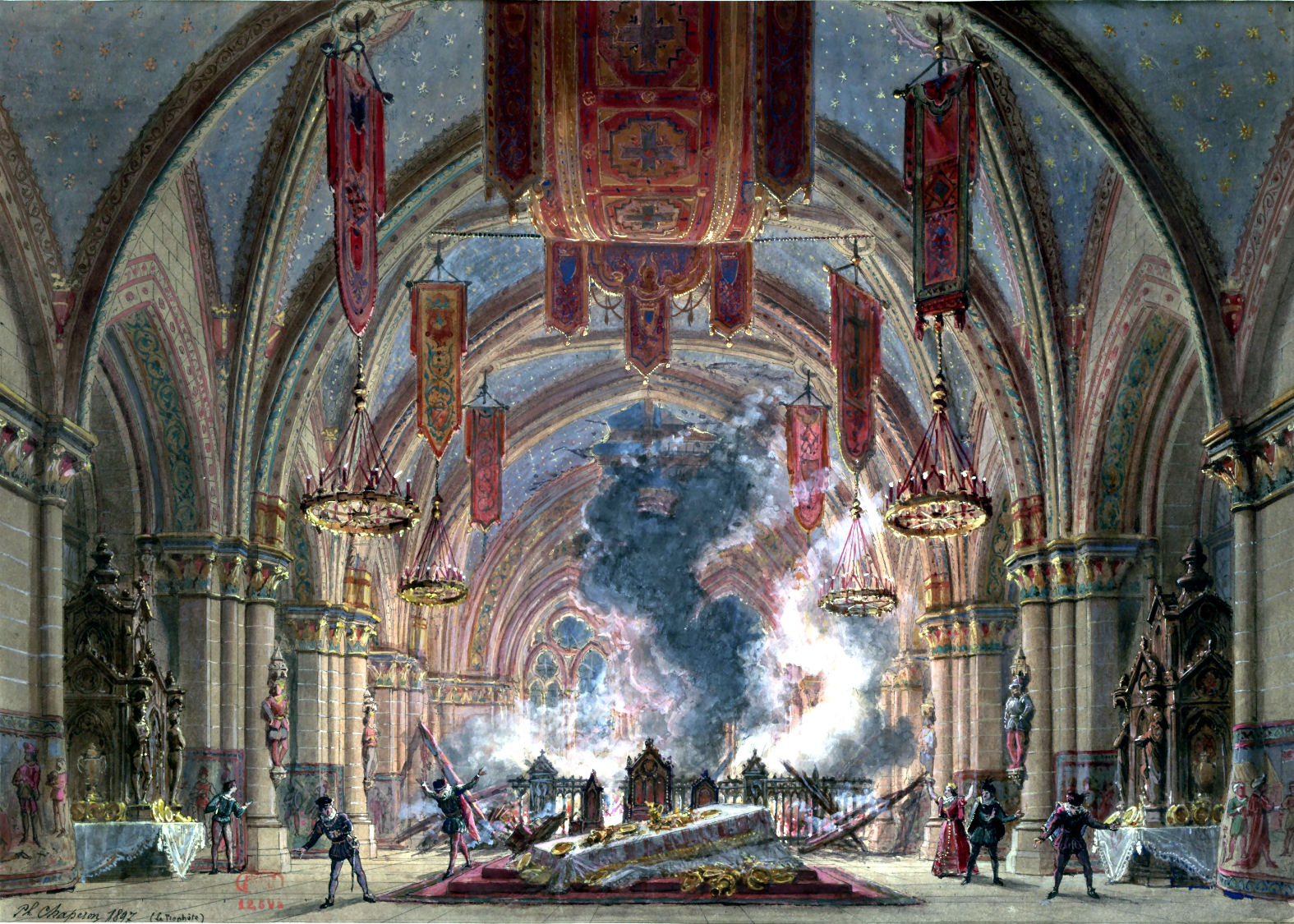 Le Prophète : sketch of the opera set for the third scene of the fifth act (1897) by Philippe Chaperon (1823-1906)